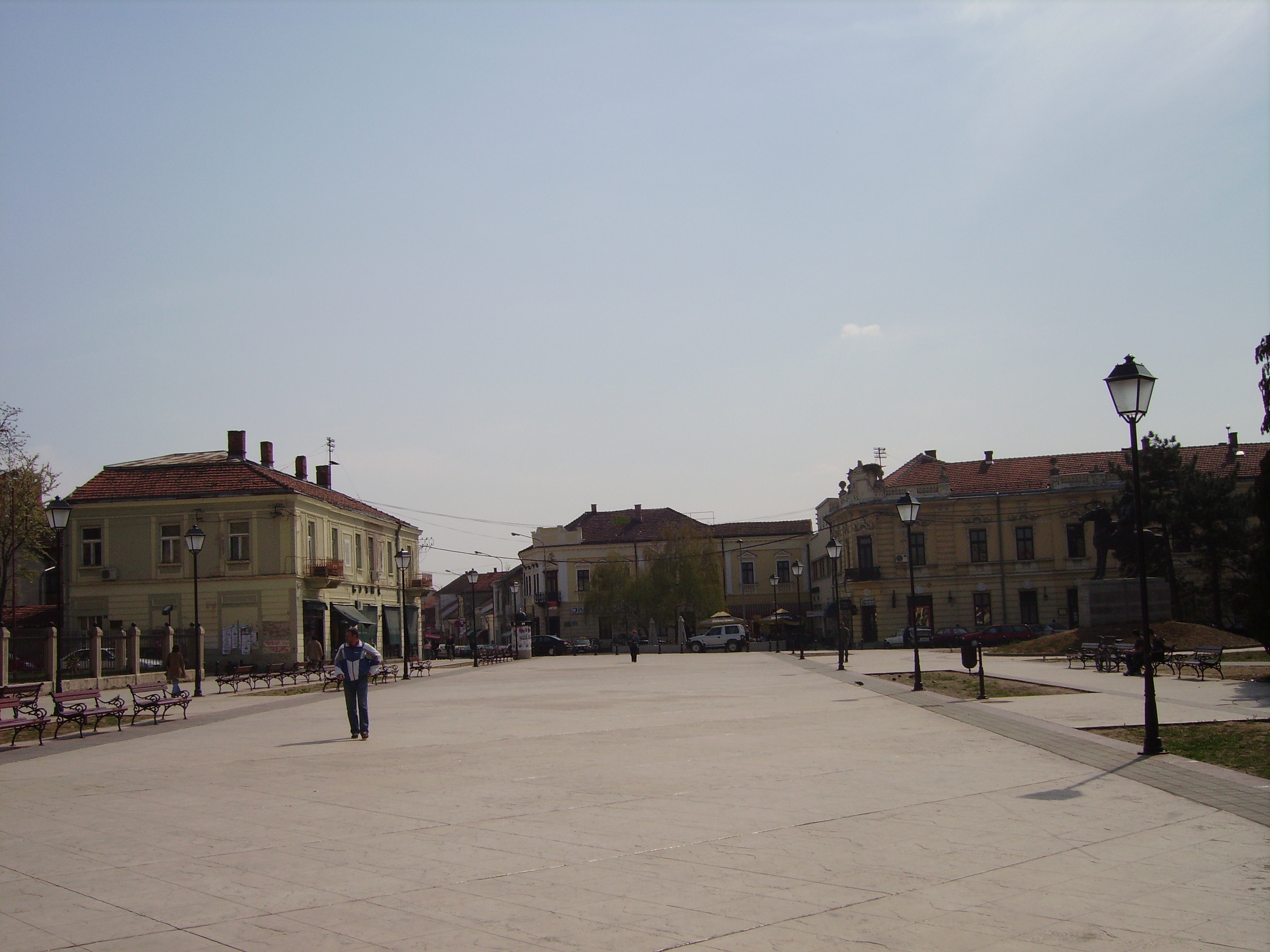 Center of Negoin